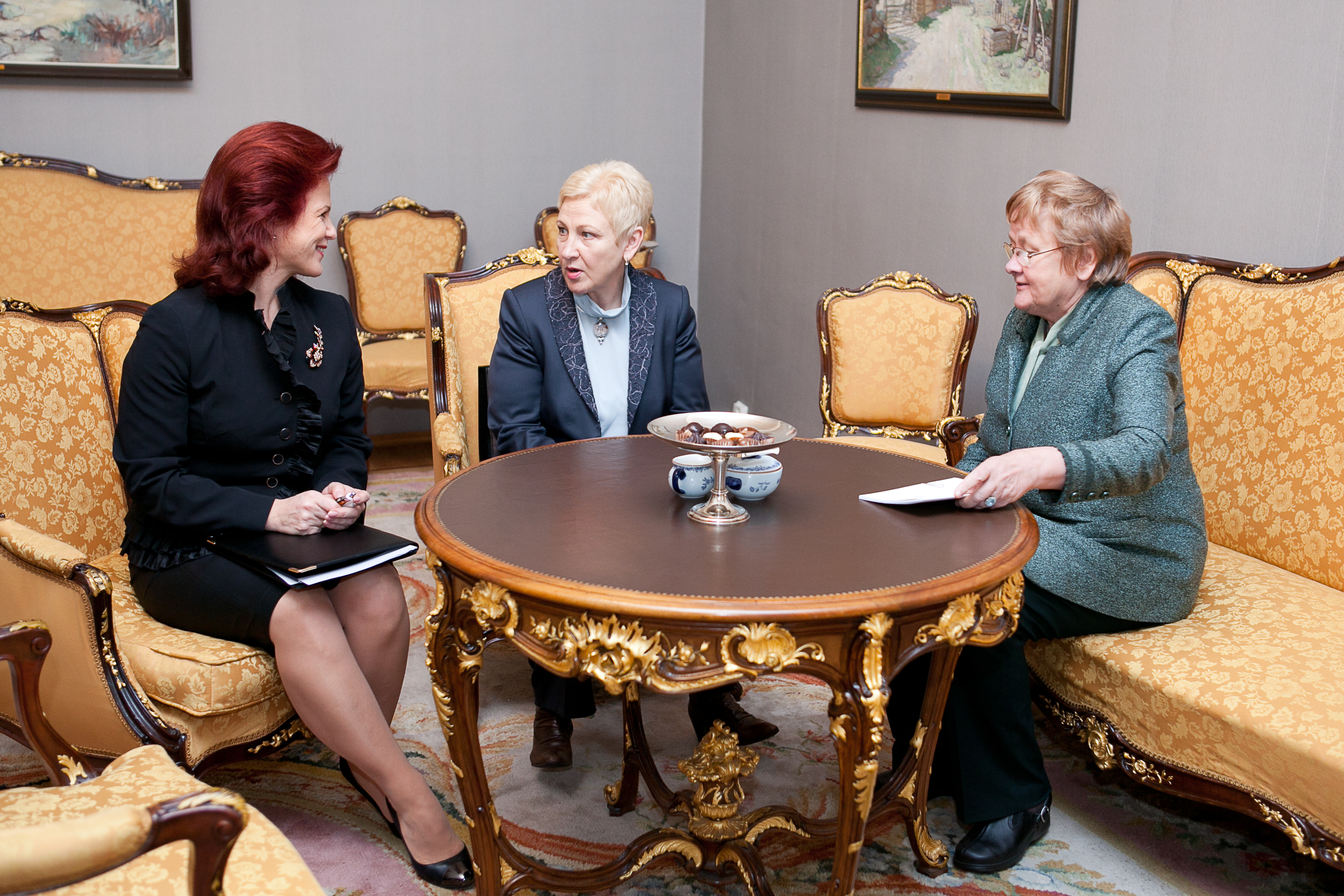 Baltic Assembly: Solvita Āboltiņa, Irena Degutienė, Ene Ergma